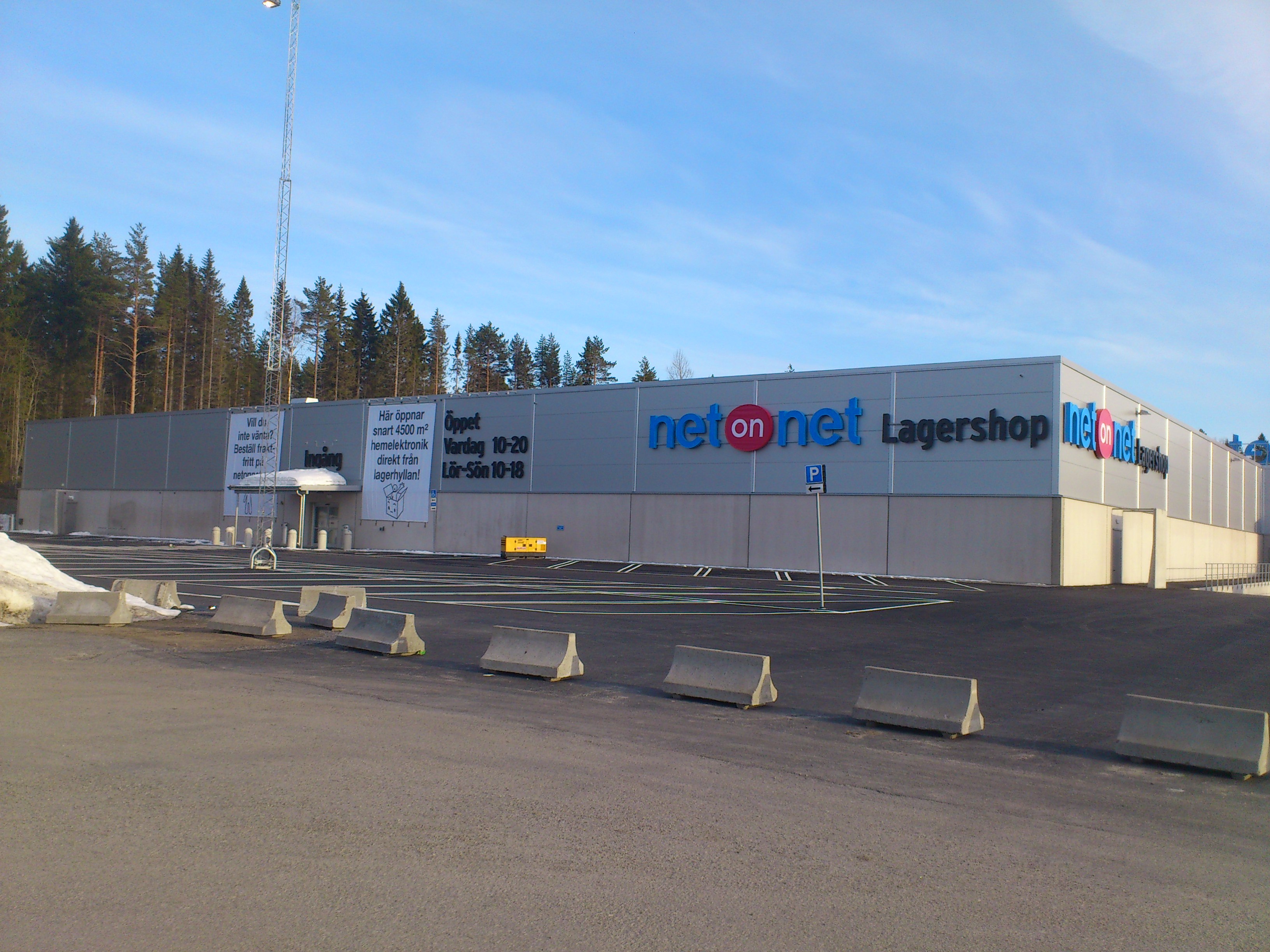 Netonnet store in Umeå, Sweden